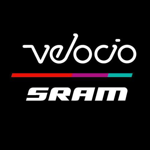 Velocio-SRAM team logo